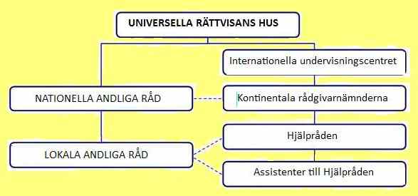 A diagram which shows the organization of the Bahá'í administration.